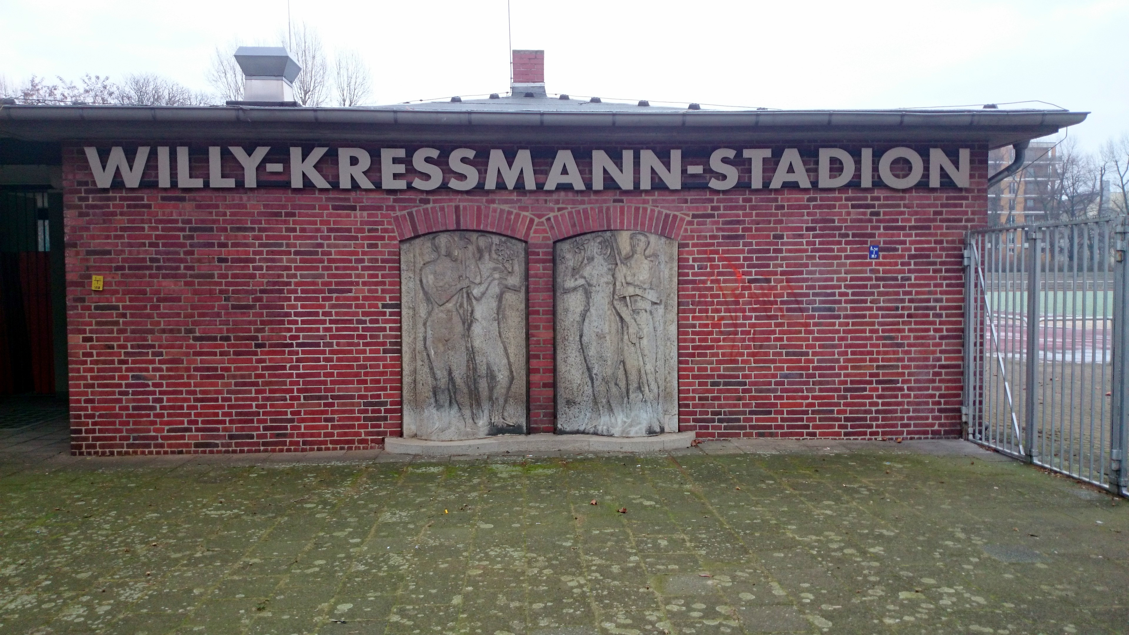 Berlin in winter.